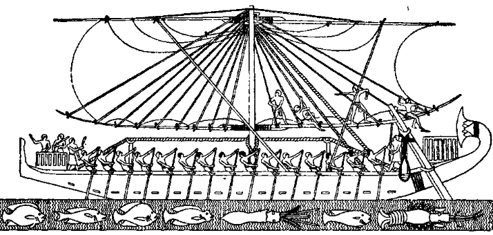 An illustration from the Encyclopaedia Biblica, a 1903 publication which is now in the public domain. Fig. 1 for article "Ship". Image of Queen Hatshepsu's sailing boat.